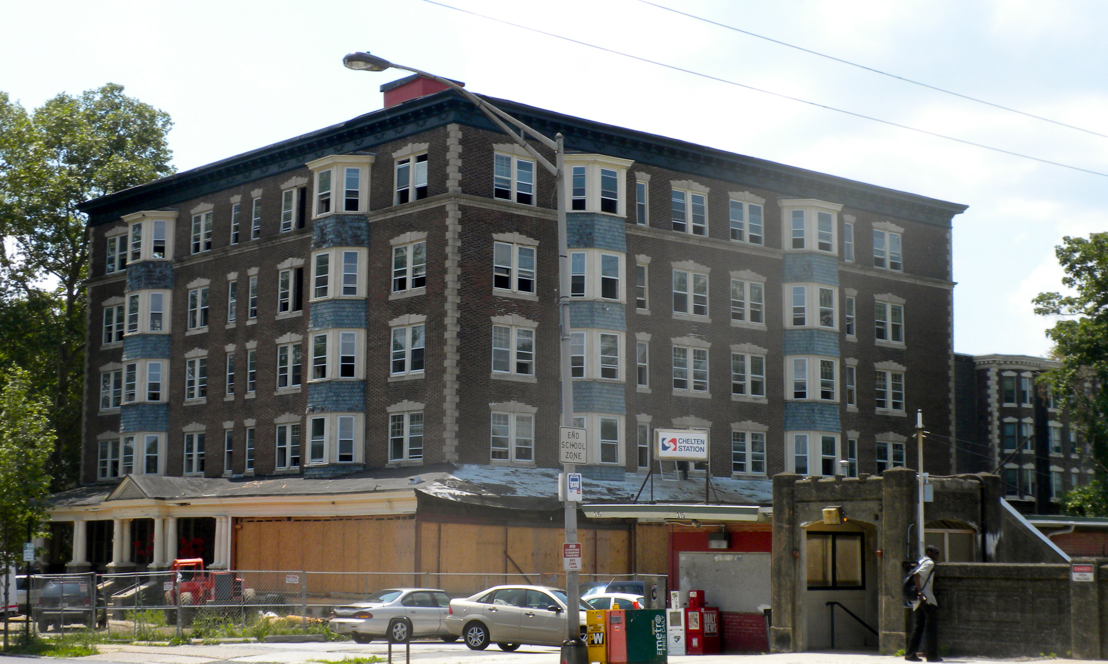 Delmar Apartments on NRHP since November 14, 1982. At 319 West Chelton Avenue, right by the Chelton Ave SEPTA regional rail station (entrance in foreground) in Germantown neighborhood of Northwest Philadelphia.